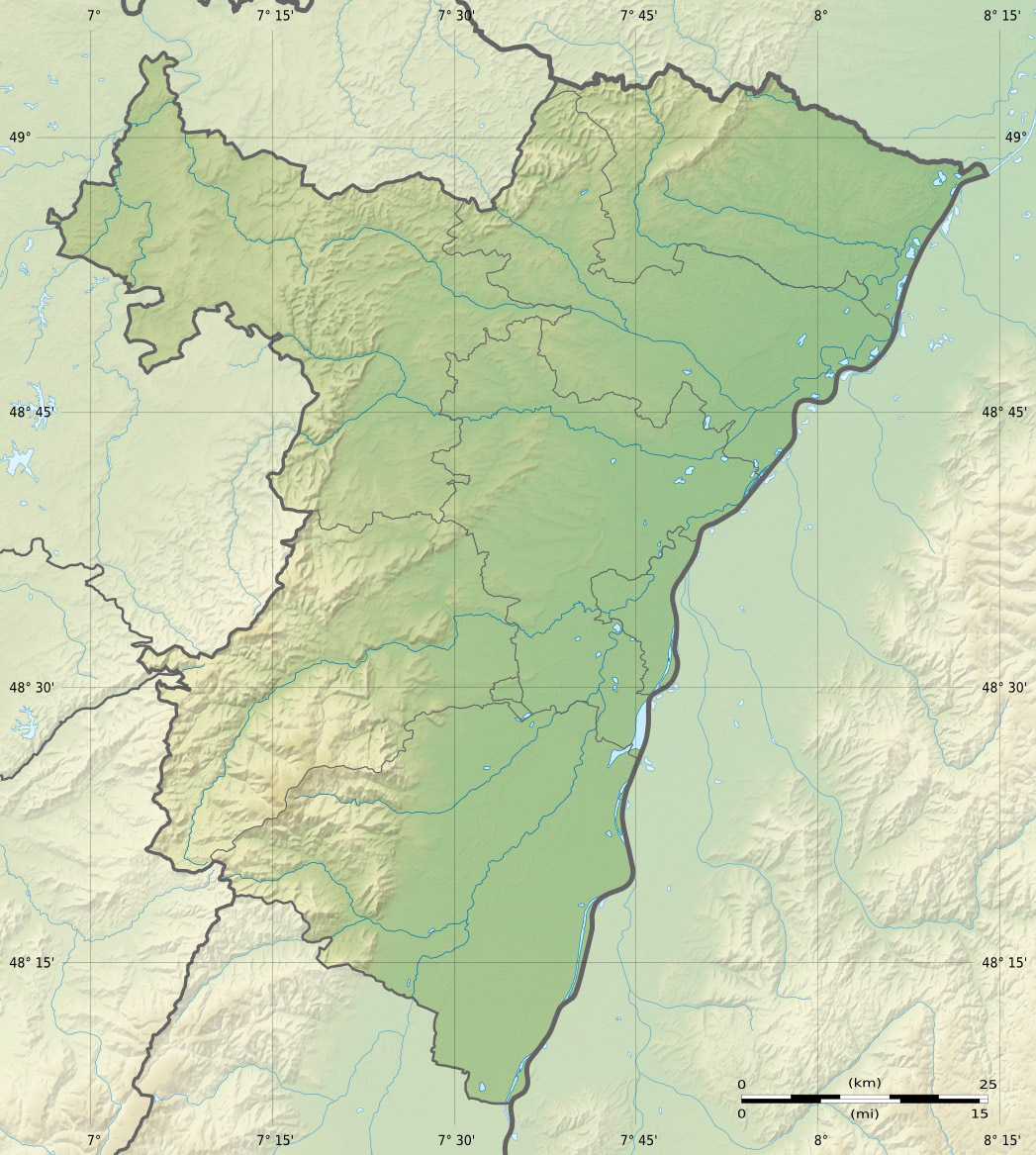 Blank physical map of the department of Bas-Rhin, France, for geo-location purpose.